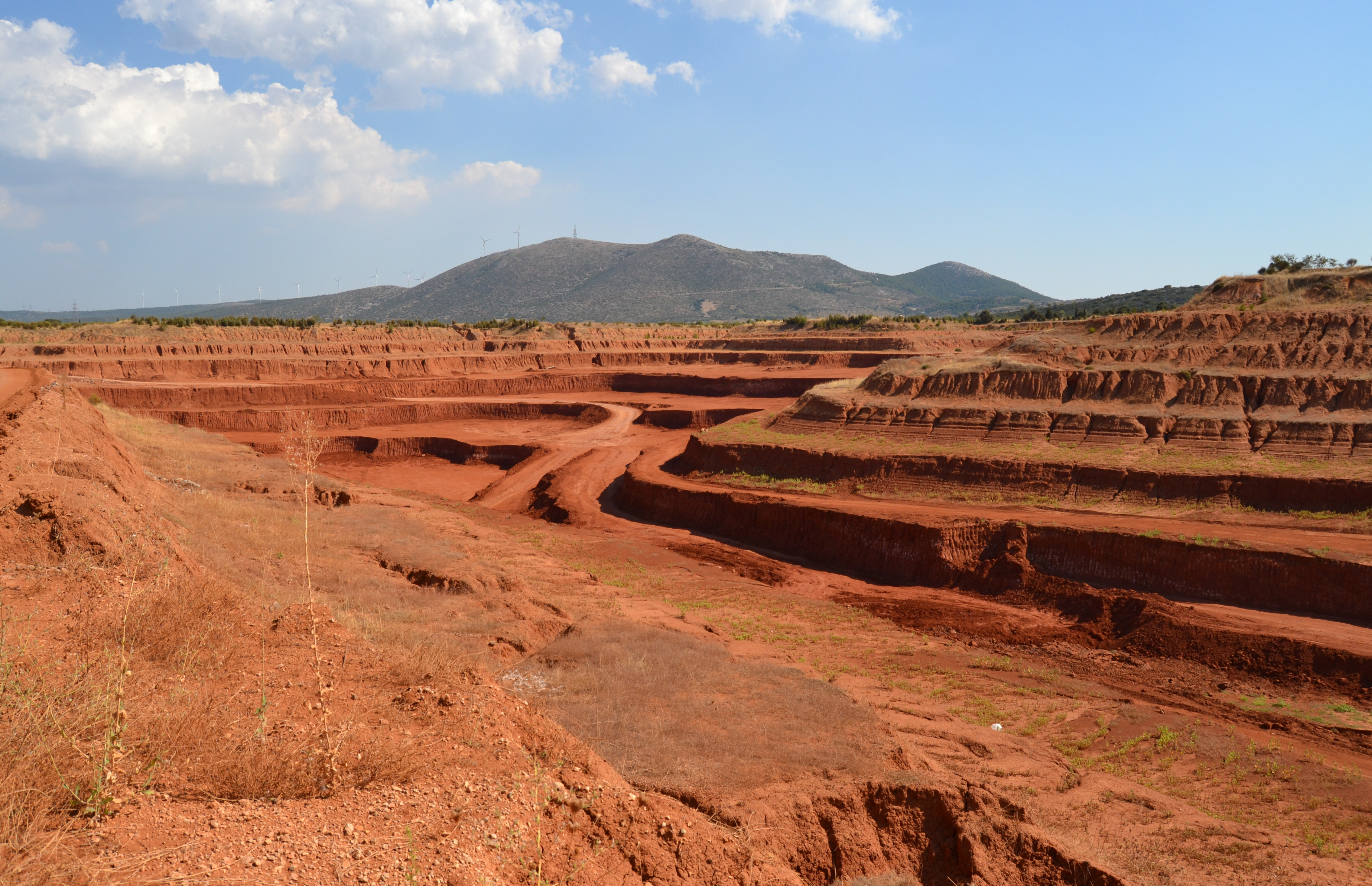 From this Clay pit near Skourta, Municipality Tanagra, Boeotia, the ancient potters of Athens get their clay for the attic pottery ware.